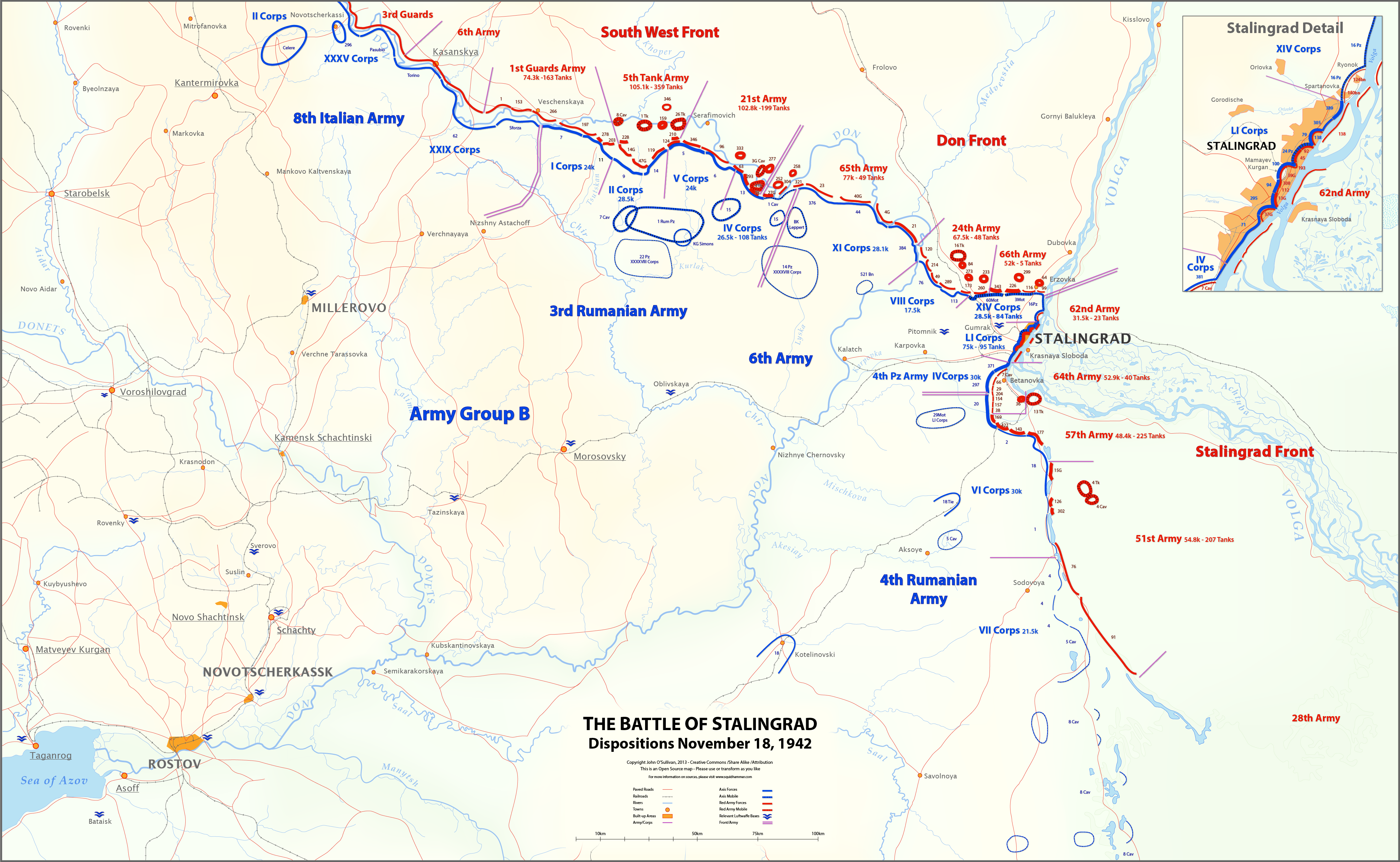 This map shows unit locations and relative strengths for Axis and Soviet Armies on Nov 18, 1942, during the Battle of Stalingrad. On November 19, the Soviets launched Operation Uranus, an offensive designed to isolate and destroy the German 6th Army at Stalingrad.